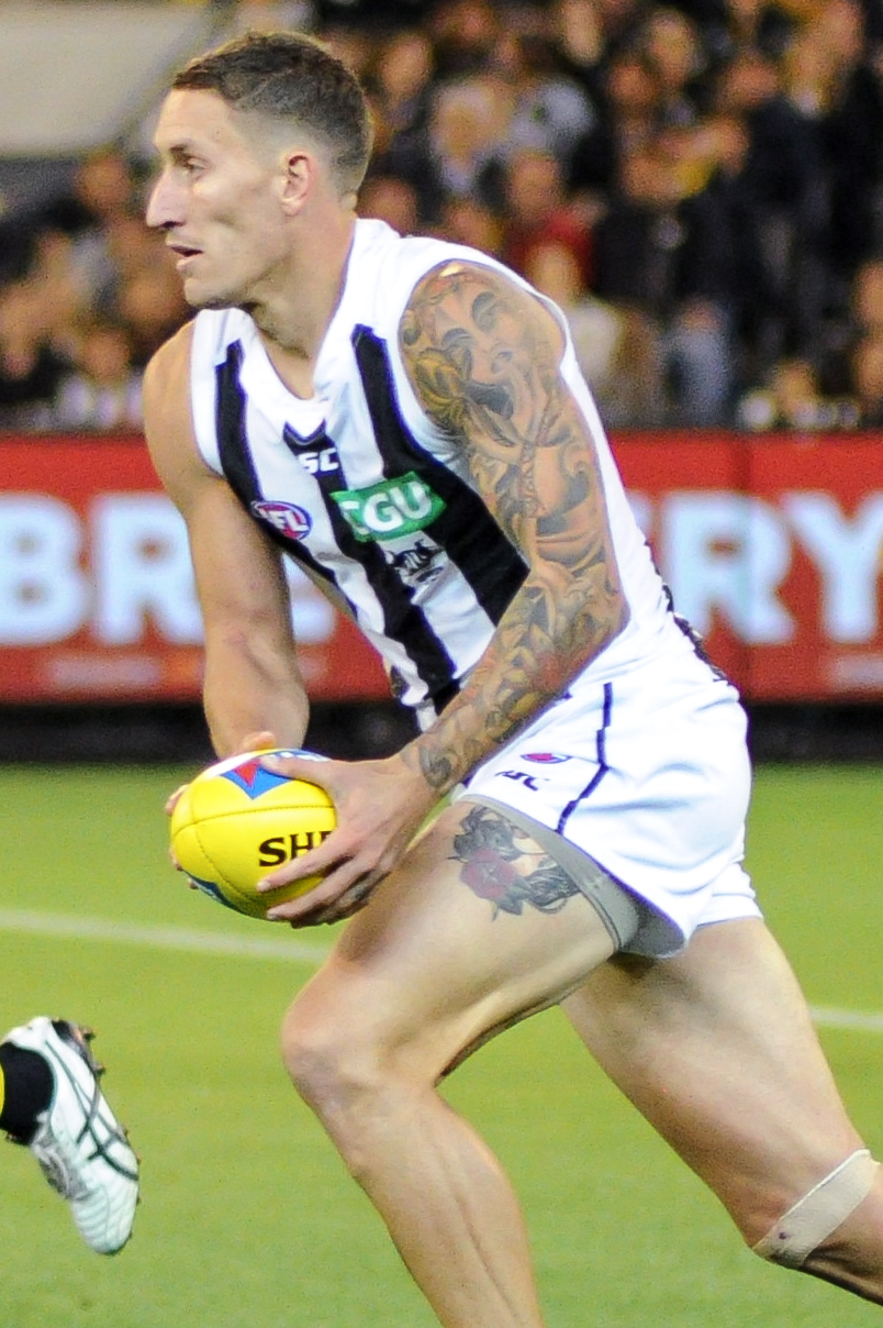 Jesse White during the AFL round two match between Richmond and Collingwood on 30 March 2017 at the Melbourne Cricket Ground in Melbourne, Victoria.